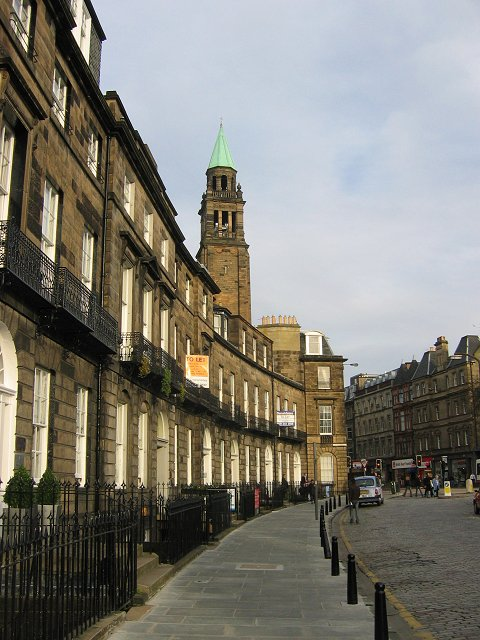 Coates Crescent. Curved row of West End town houses, mainly used as offices. Looking east towards Princes Street.